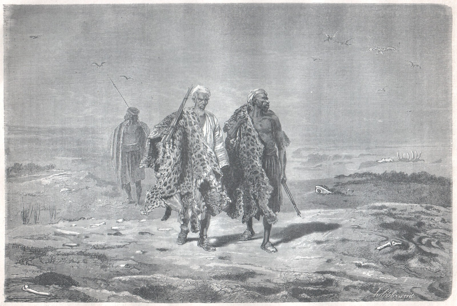 Irak (Babylonia). From "Le Tour du Monde" French illustrated magazine.